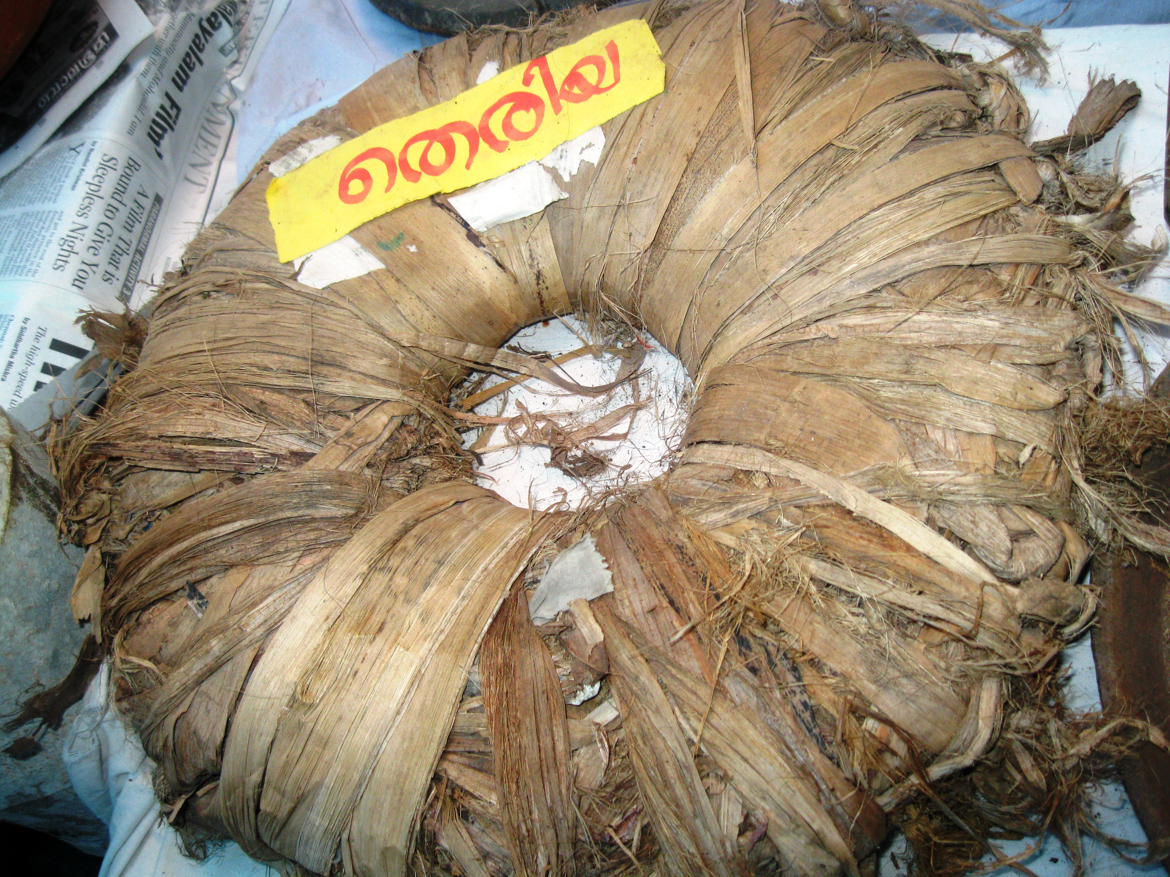 the pad for pot